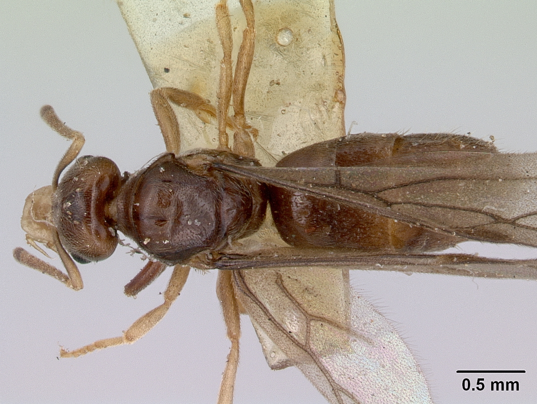 Dorsal view of ant Acropyga myops specimen casent0172018.